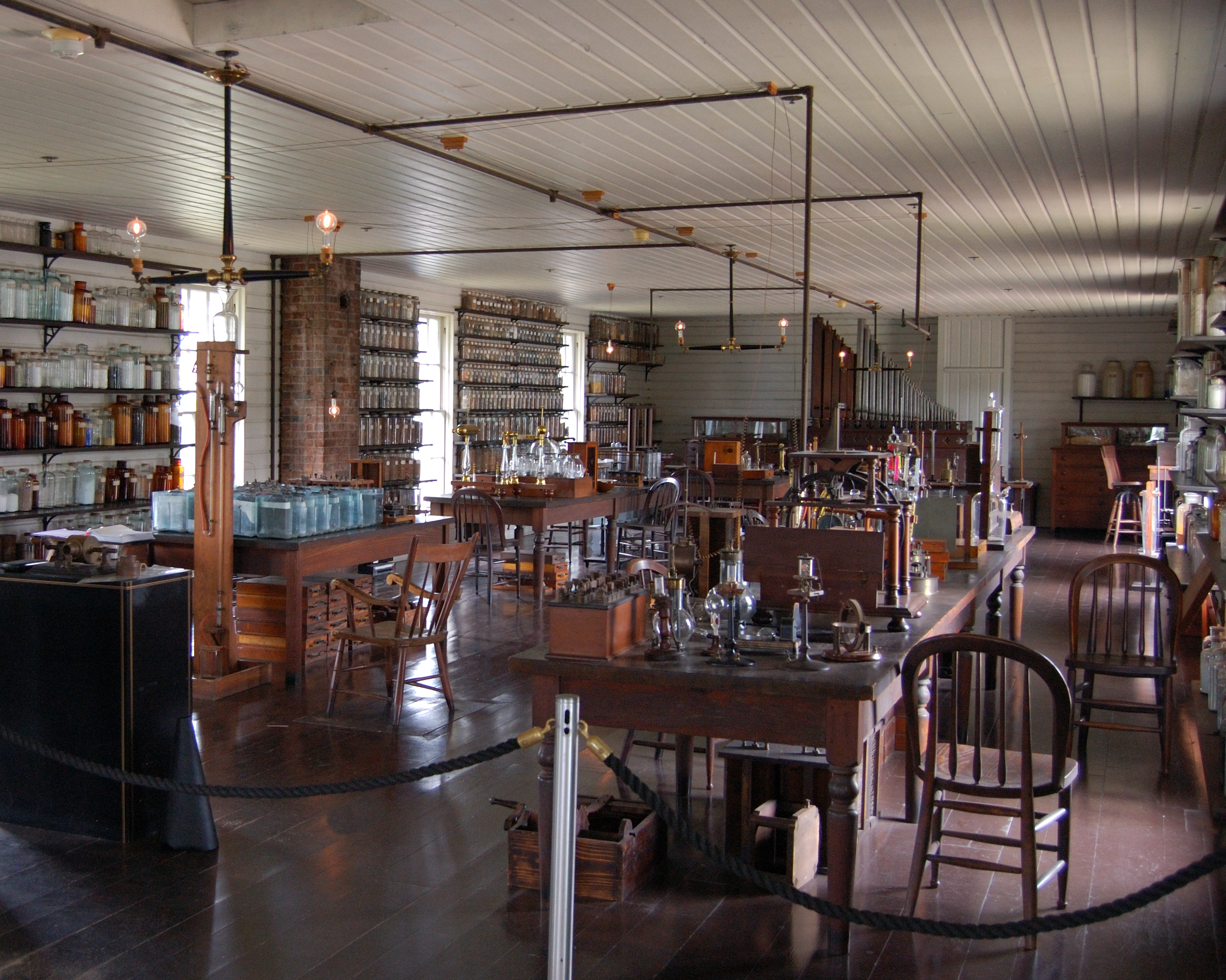 Upstairs at Thomas Edison's Menlo Park Laboratory (replica buildings constructed in 1929 in Greenfield Village). Note the organ against the back wall.